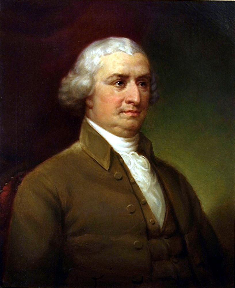 David Howell (January 1, 1747 – July 30, 1824) Artist: Lincoln, James Sullivan (1811 - 1888) Medium: Oil on canvas